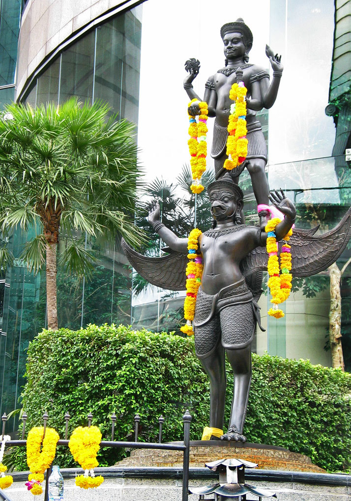 Statue of Vishnu on Garuda in front of Holiday Inn, Bangkok, Thailand.